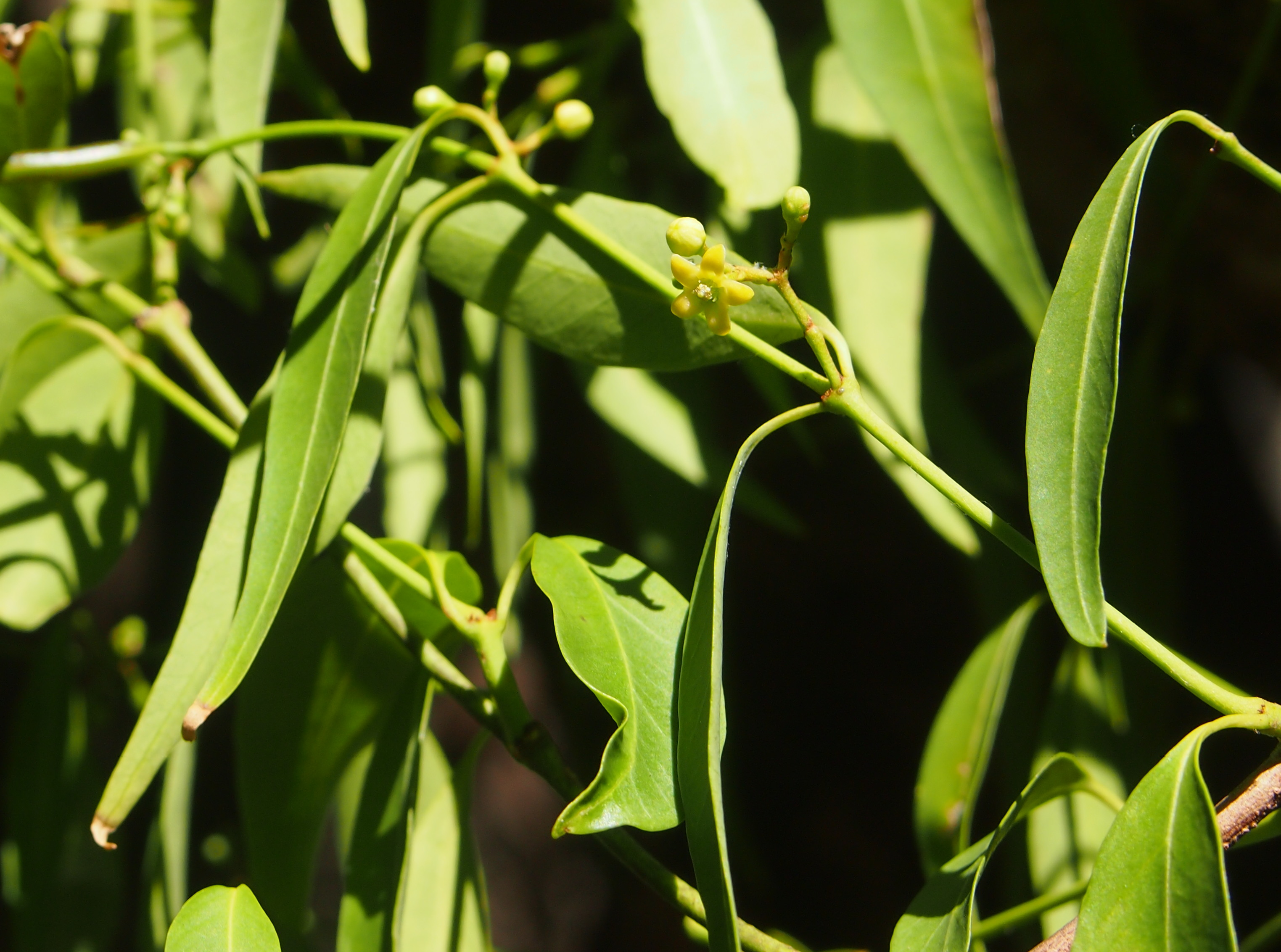 Secamone elliptica foliage and flower, in Mount Etna Caves National Park, Australia